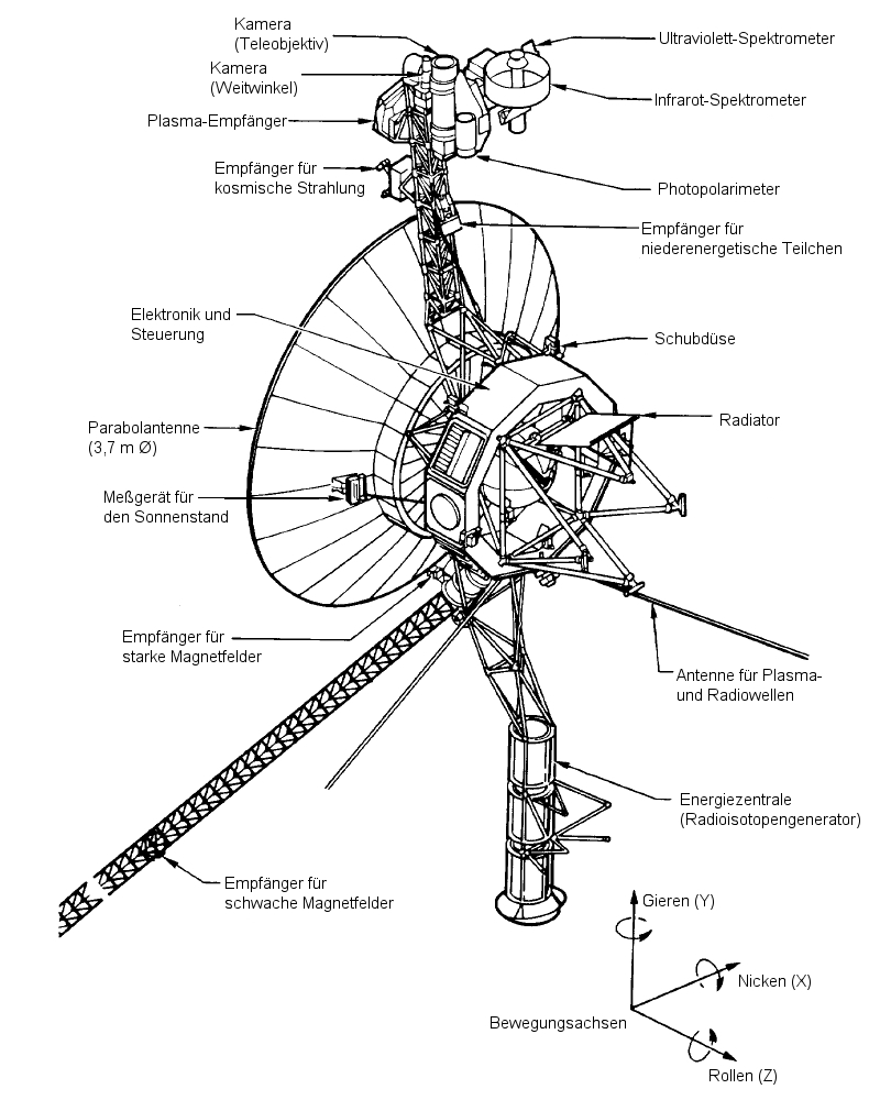 The Voyager spacecraft structure - schematic diagram. German description